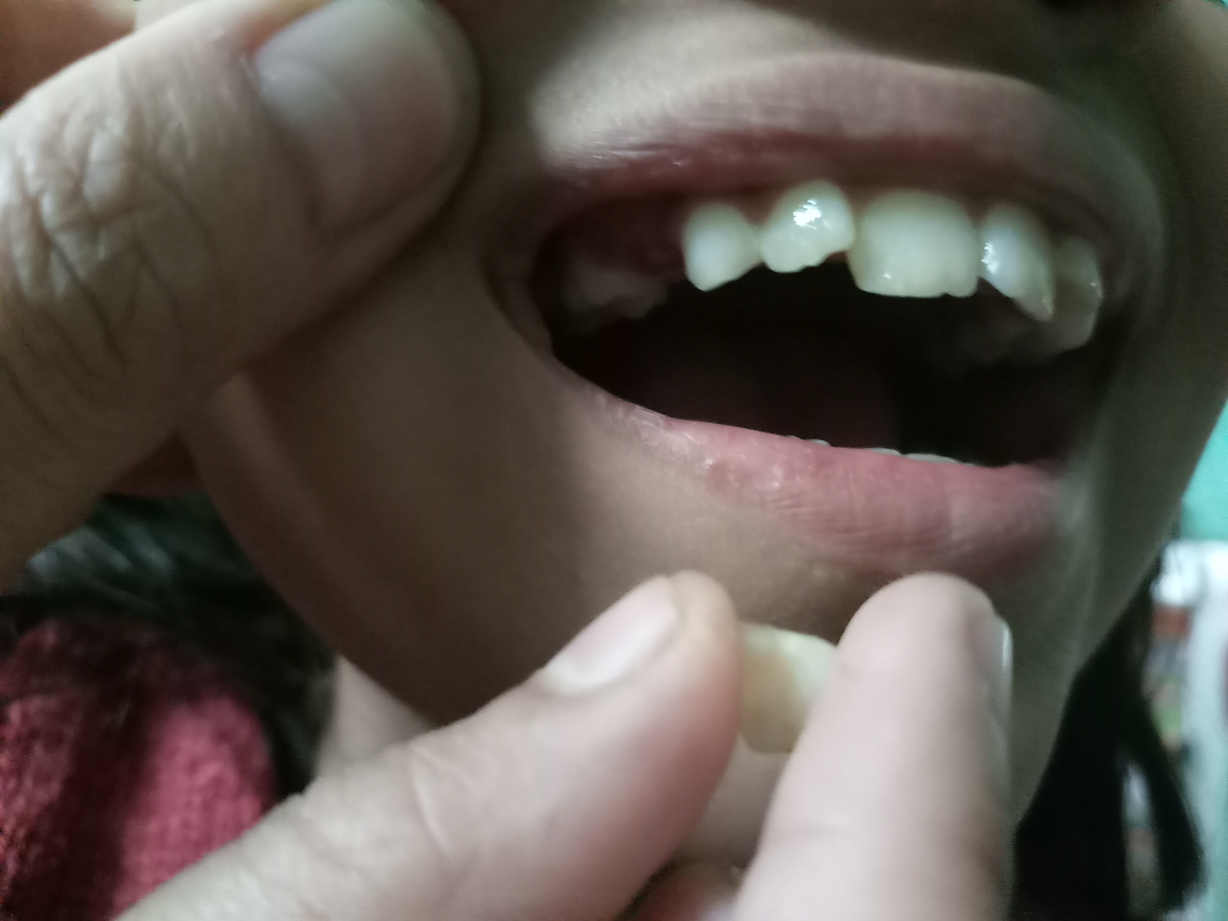 first molar teeth